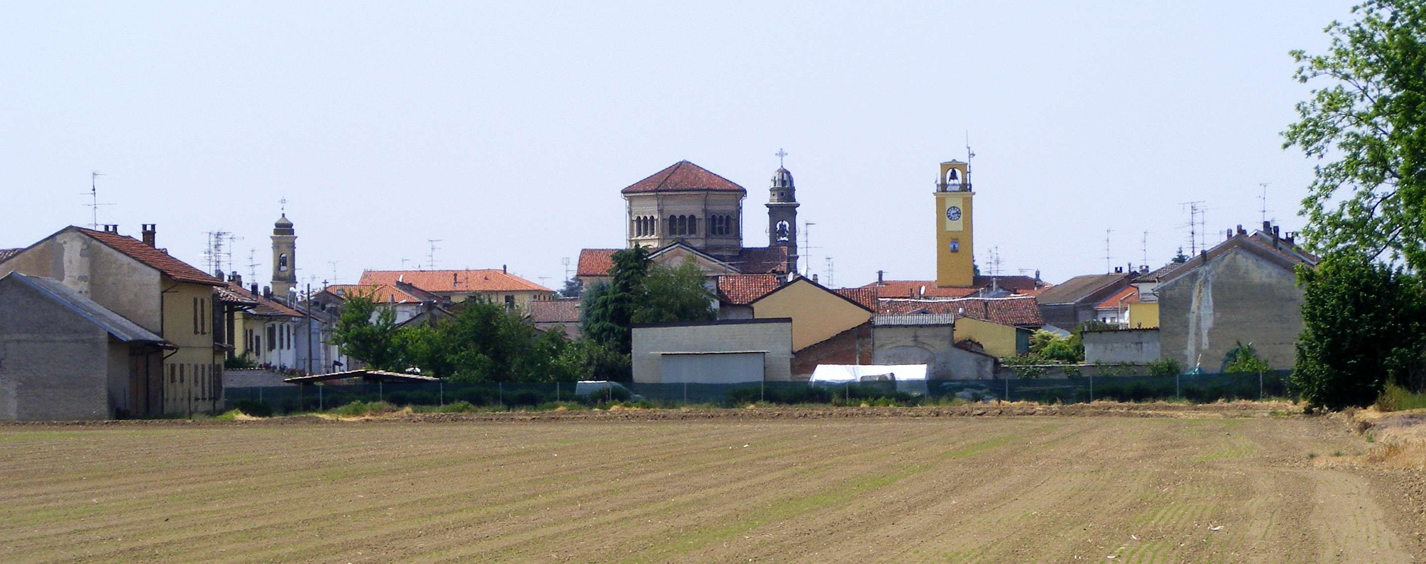 Costanzana (VC, Italy): panorama